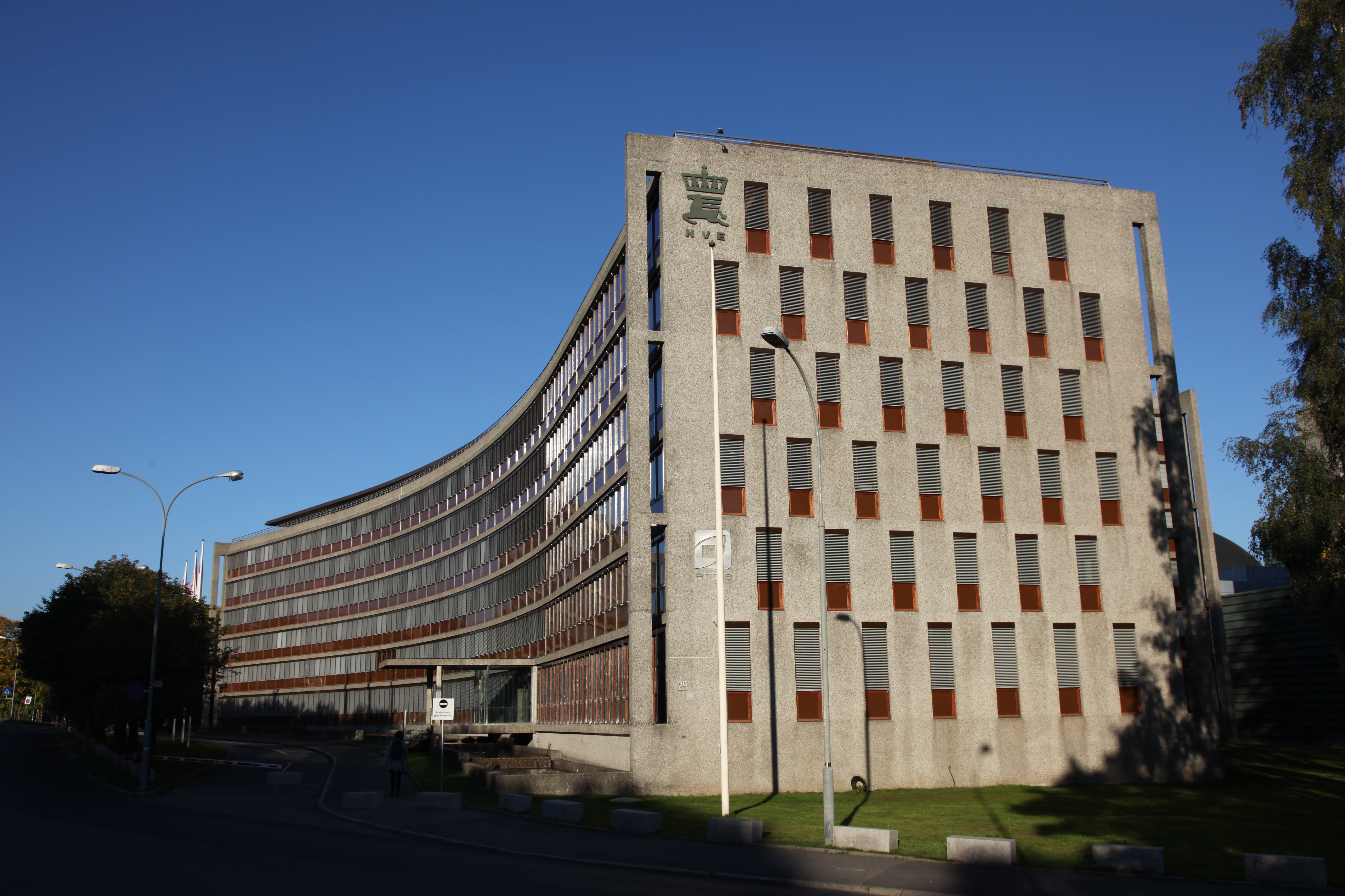 Administration of Norwegian Water Resources and Energy Directorate at Middelthunsgate 29, Oslo